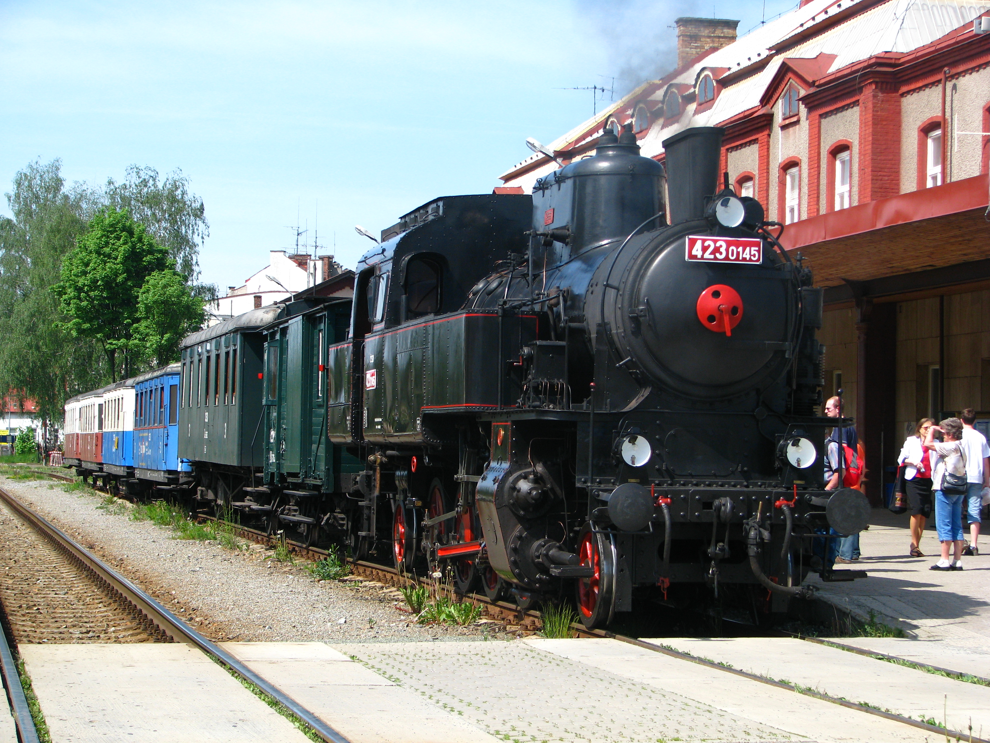 A ČSD Class 423.0 departs from Náchod station (Czech Republic).